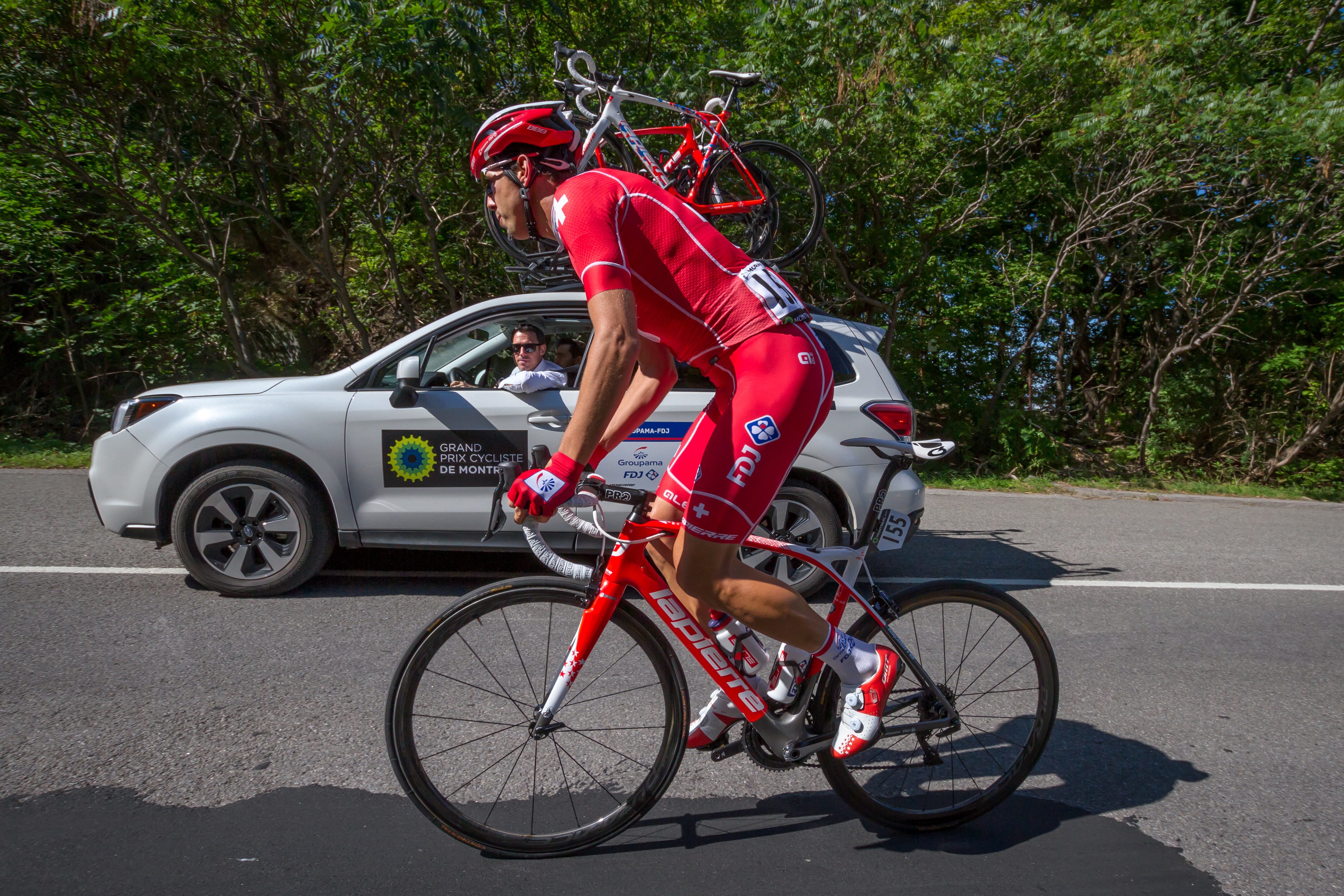 Steve Morabito (SUI) Groupama - FDJ. GPCQM - Grand Prix Cyclistes de Montreal et Quebec. Montreal 2018.